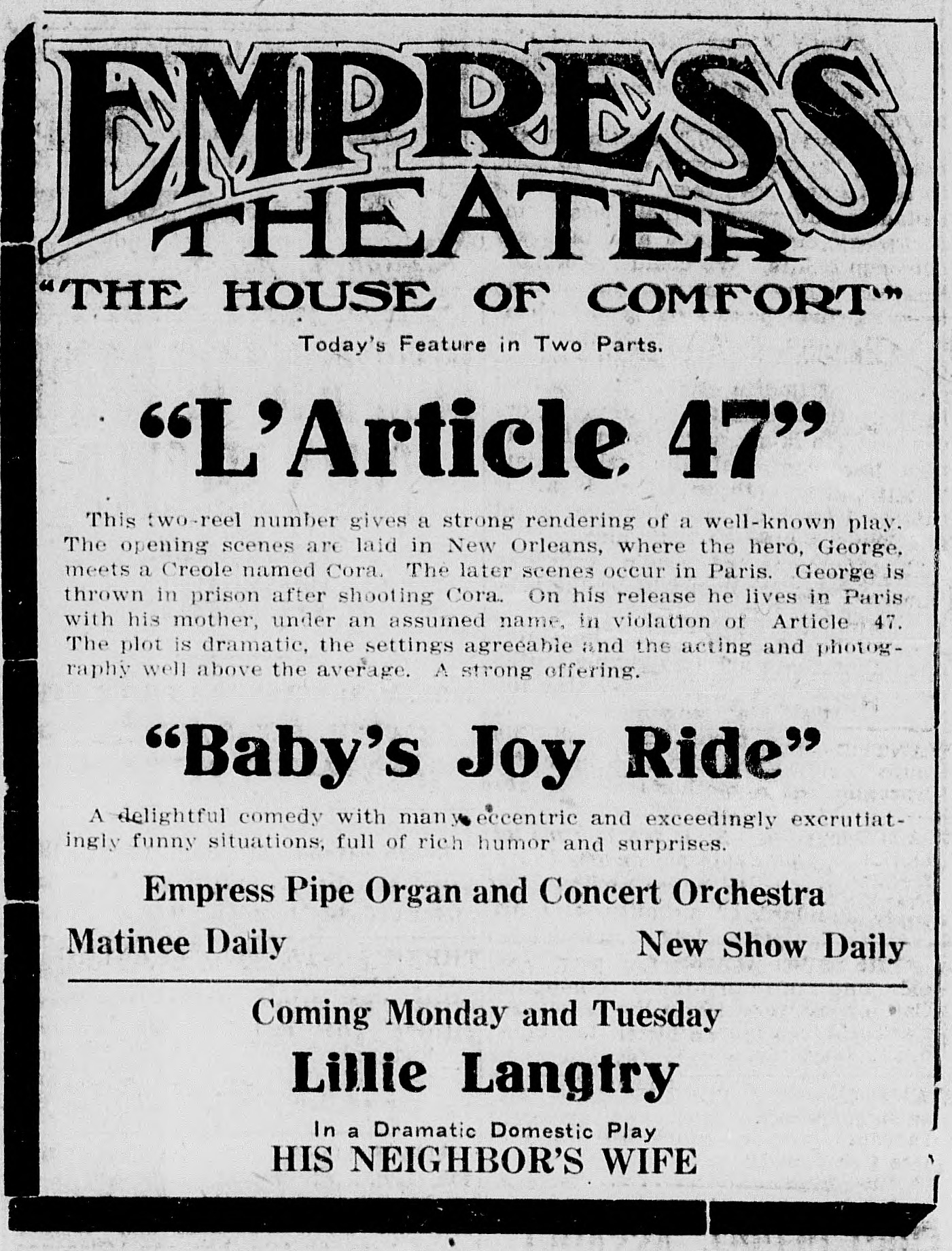 Newspaper advert for the 1913 film L'Article 47